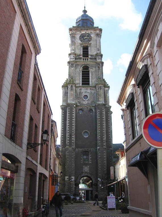 Belfry of the town hallAire-sur-la-Lys (France, dept. Pas-de-Calais)